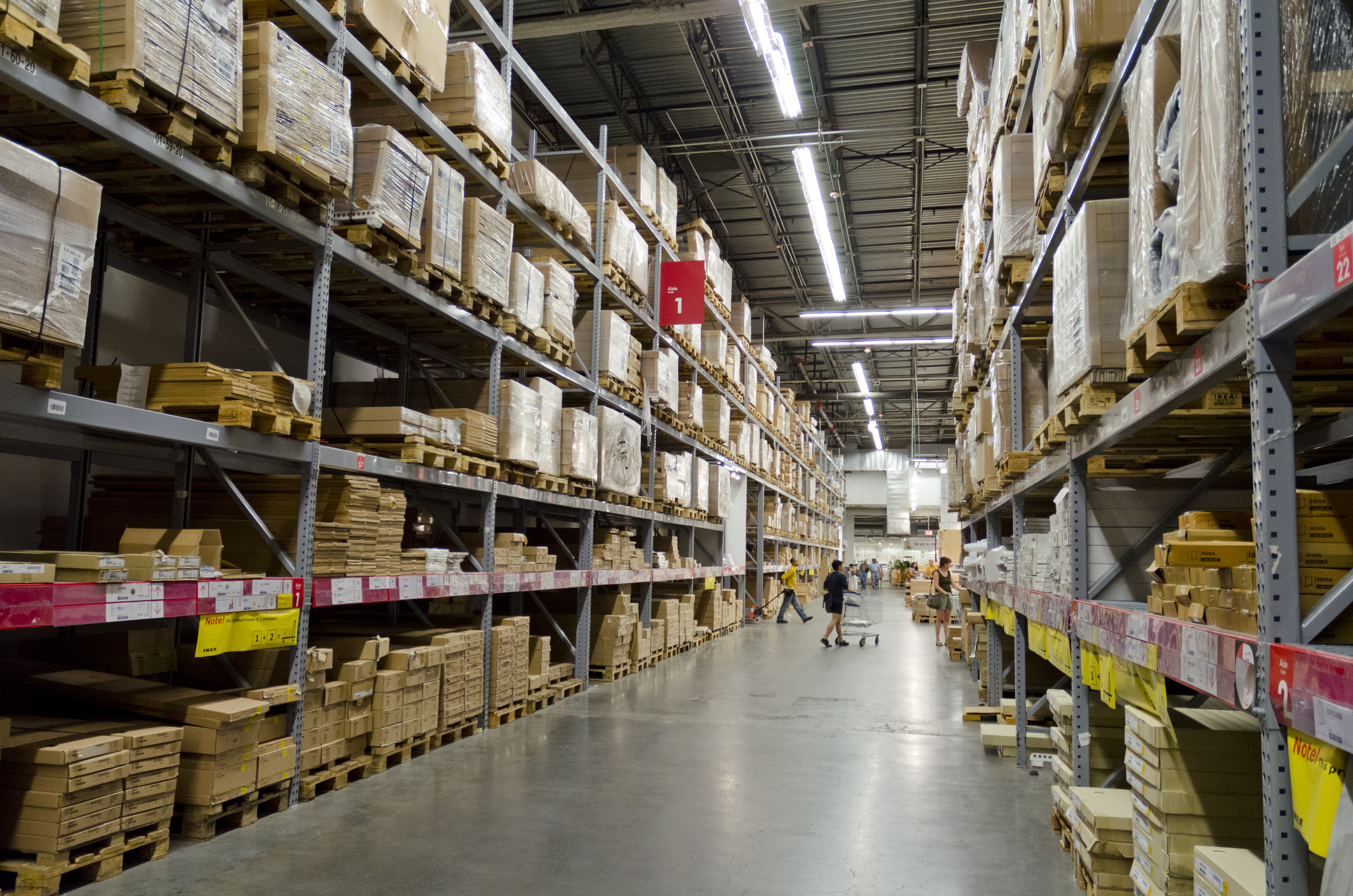 Looking down an aisle in the warehouse of an Ikea furniture store. This store is located in Brooklyn (Red Hook), New York and has two levels. The upper level is the showroom, while the lower level is the warehouse area where you can buy the bare packaged furniture.